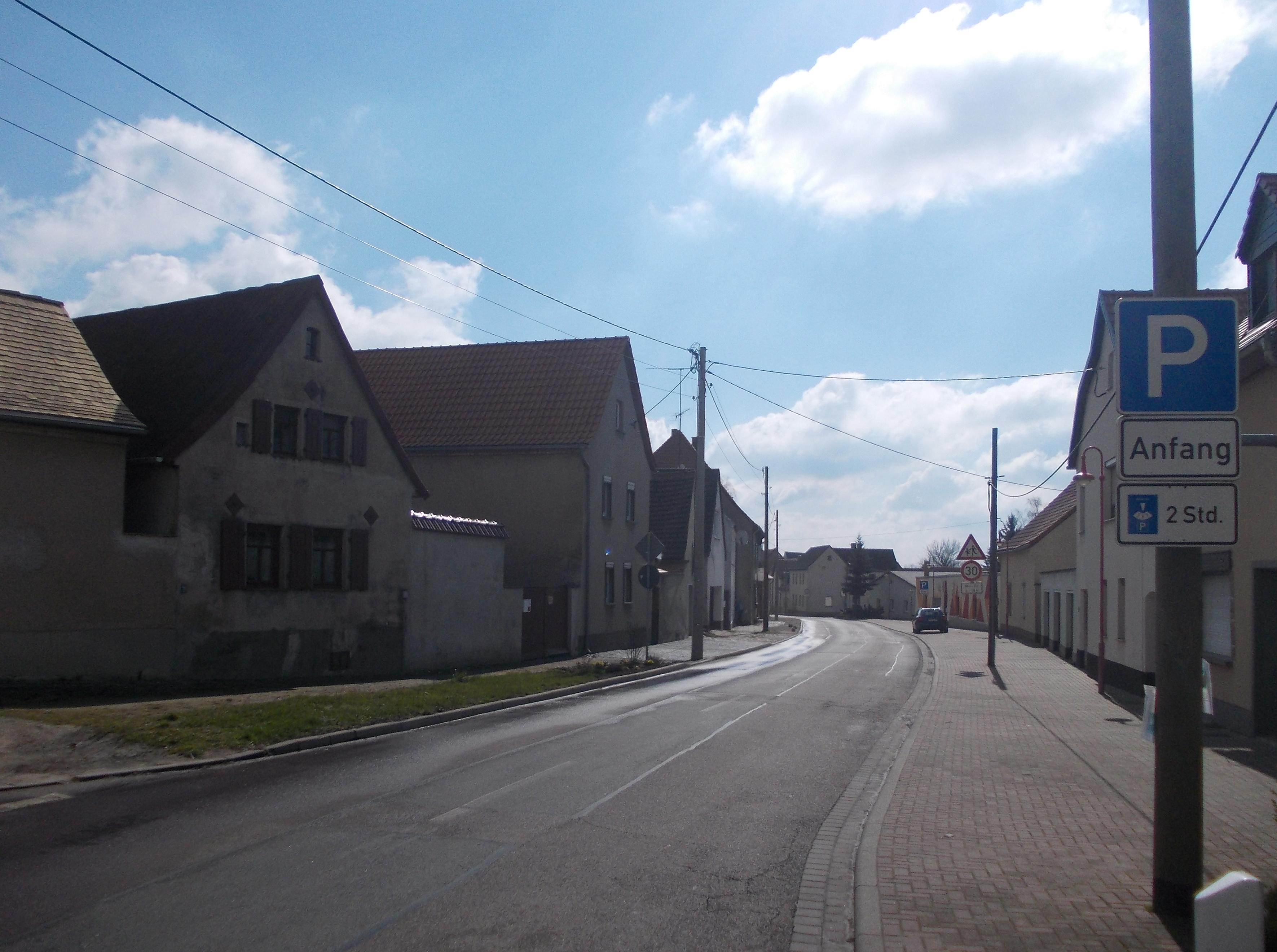 Alte Hauptstrasse in Oppin (Landsberg, district: Saalekreis, Saxony-Anhalt)